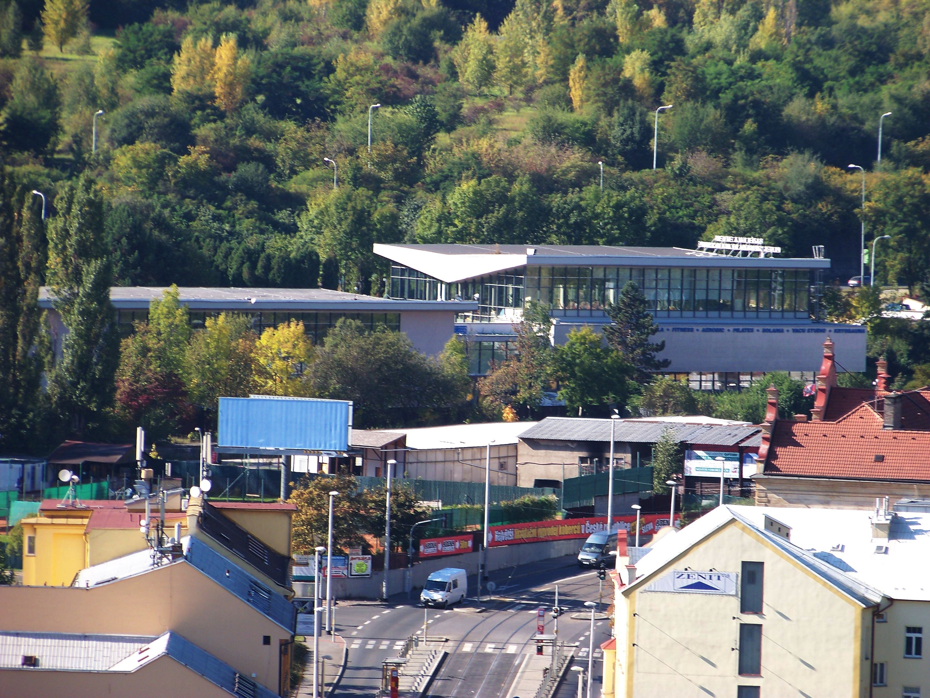 Prague-Smíchov, the Czech Republic. A view from Paví vrch to the Radlice swimming hall.